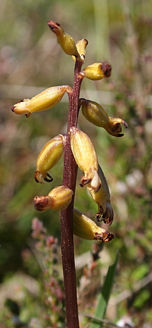 Coralroot Orchid (Corallorhiza trifida) This used to be much more widespread on the Lein Nature Reserve, with several hundred plants counted. This year, numbers have crashed; only ten plants have been found so far. Admittedly it is not easy to find, being veery small and inconspicuous, even when in full bloom. This one is actually past its best. Exact grid reference withheld because of the rarity of the plant.